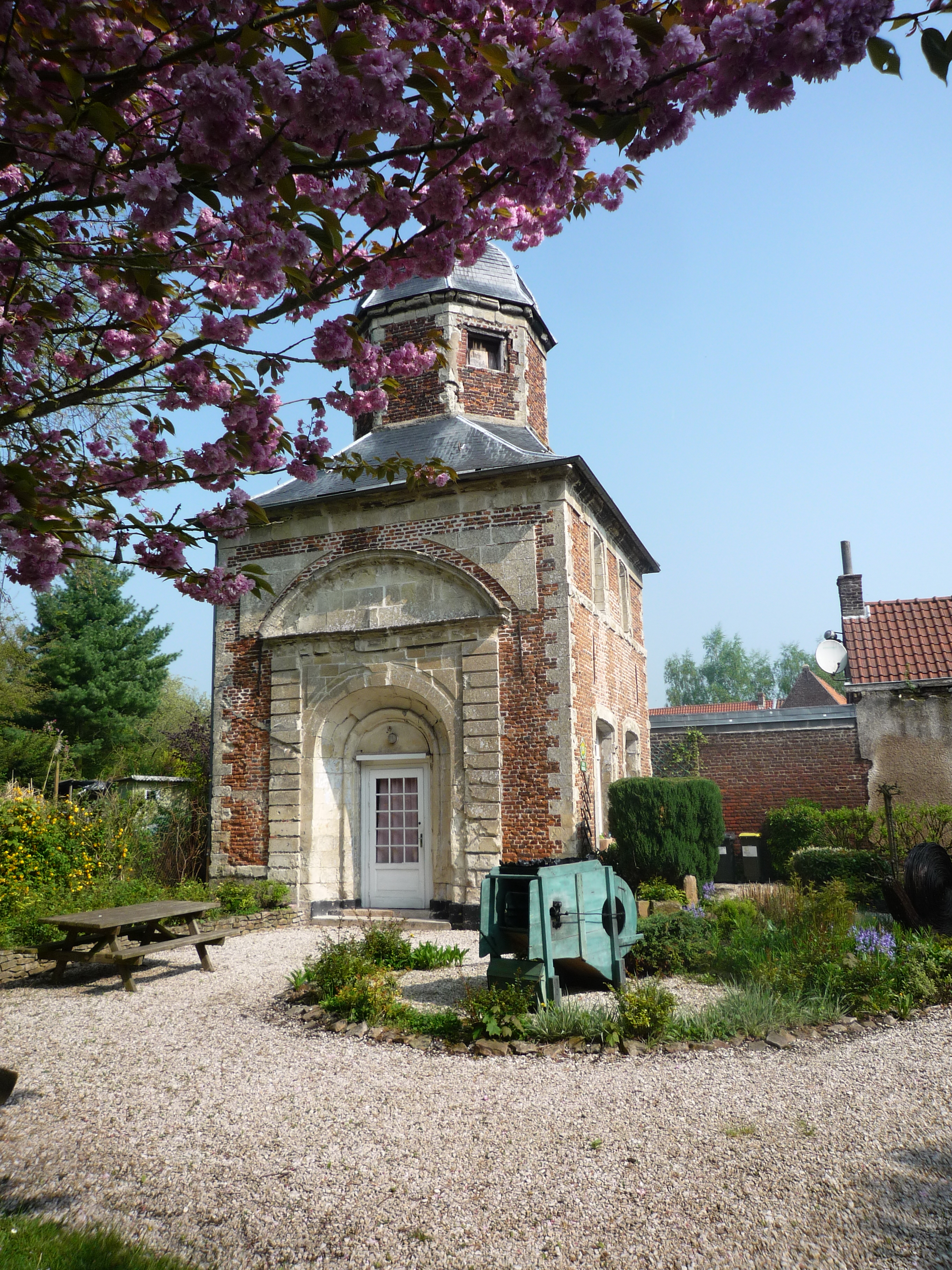 Rieulay, France.